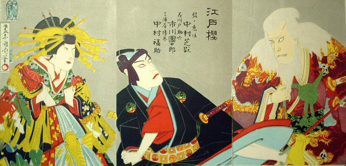 Sukeroku Yukari no Edozakura, by Kunichika Toyohara